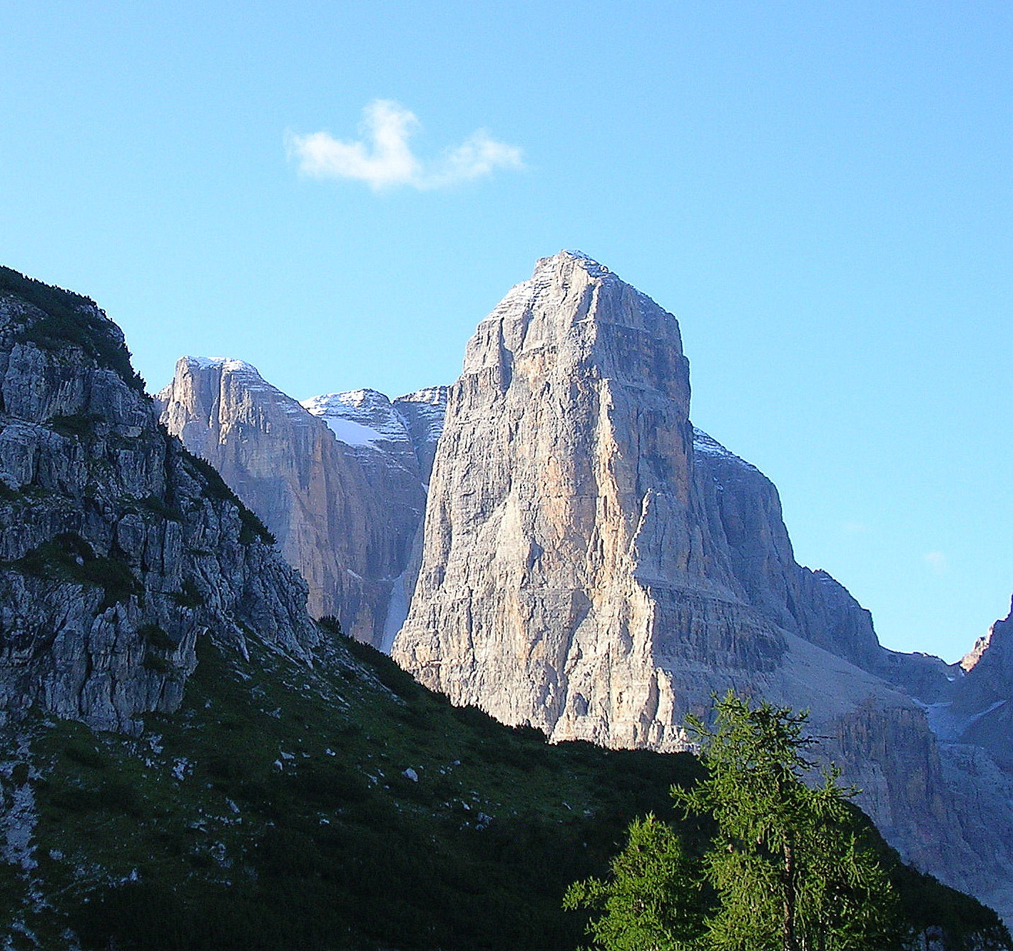 Crozzon di Brenta da nord